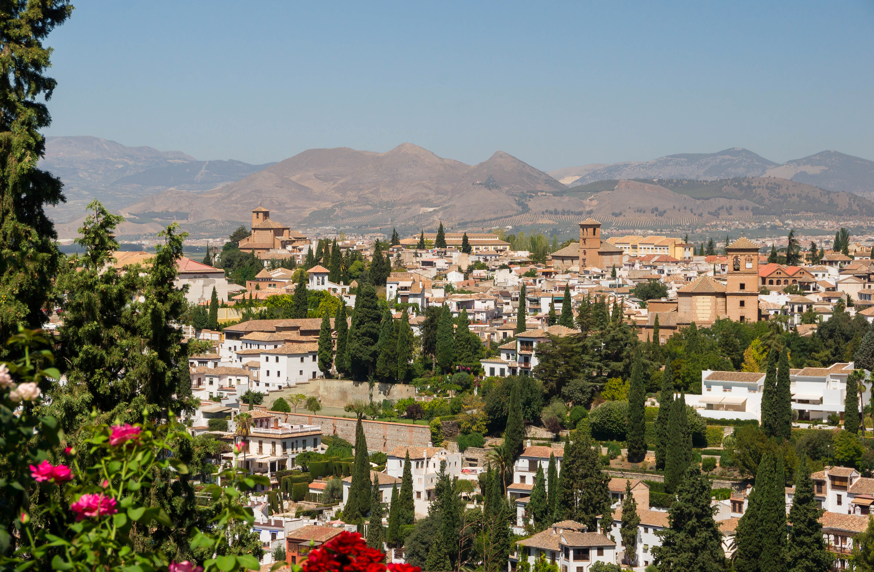 Churches and roofs, from Generalife, Granada, Spain.